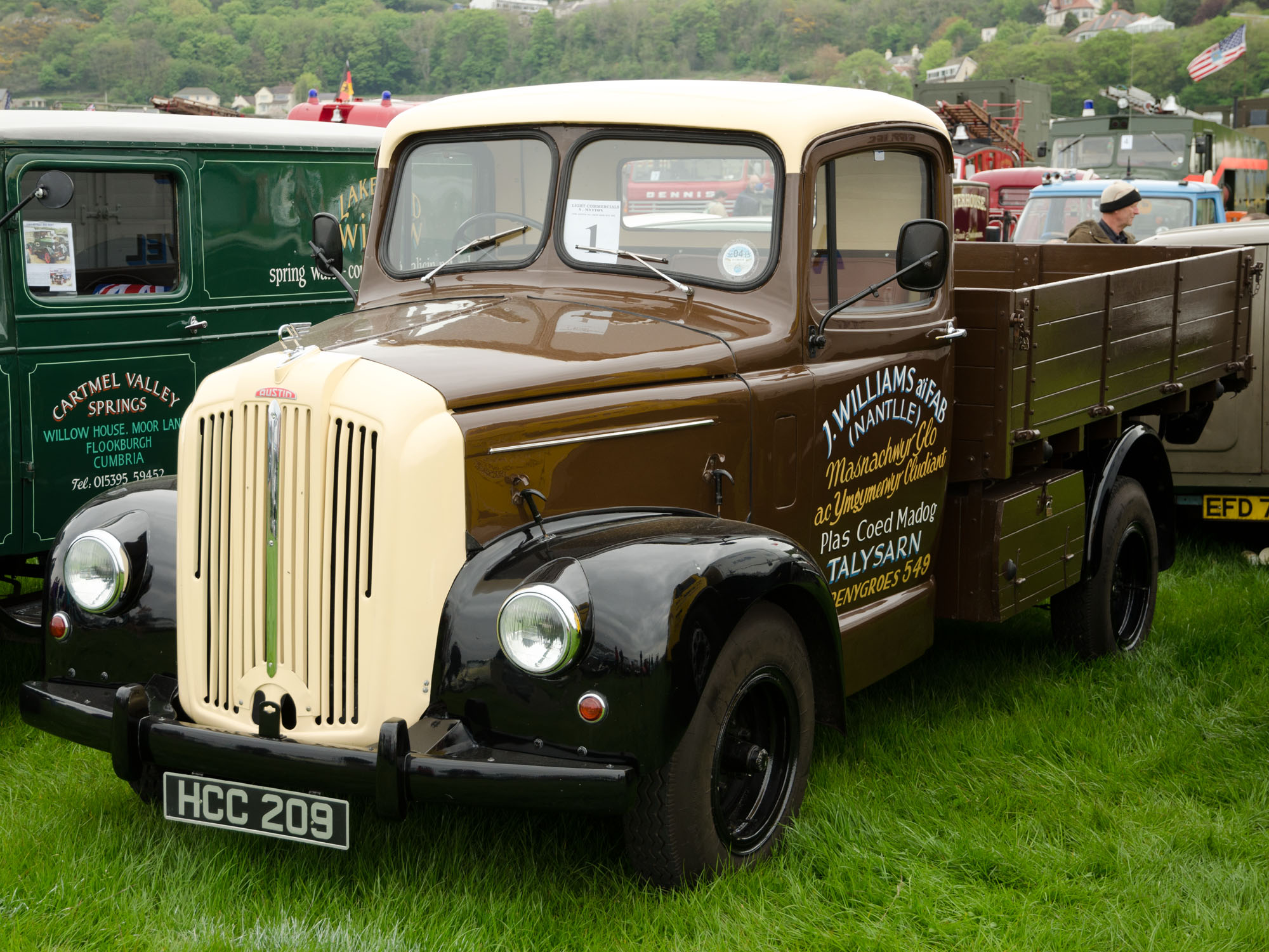 Llandudno Transport Festival 03/05/2014